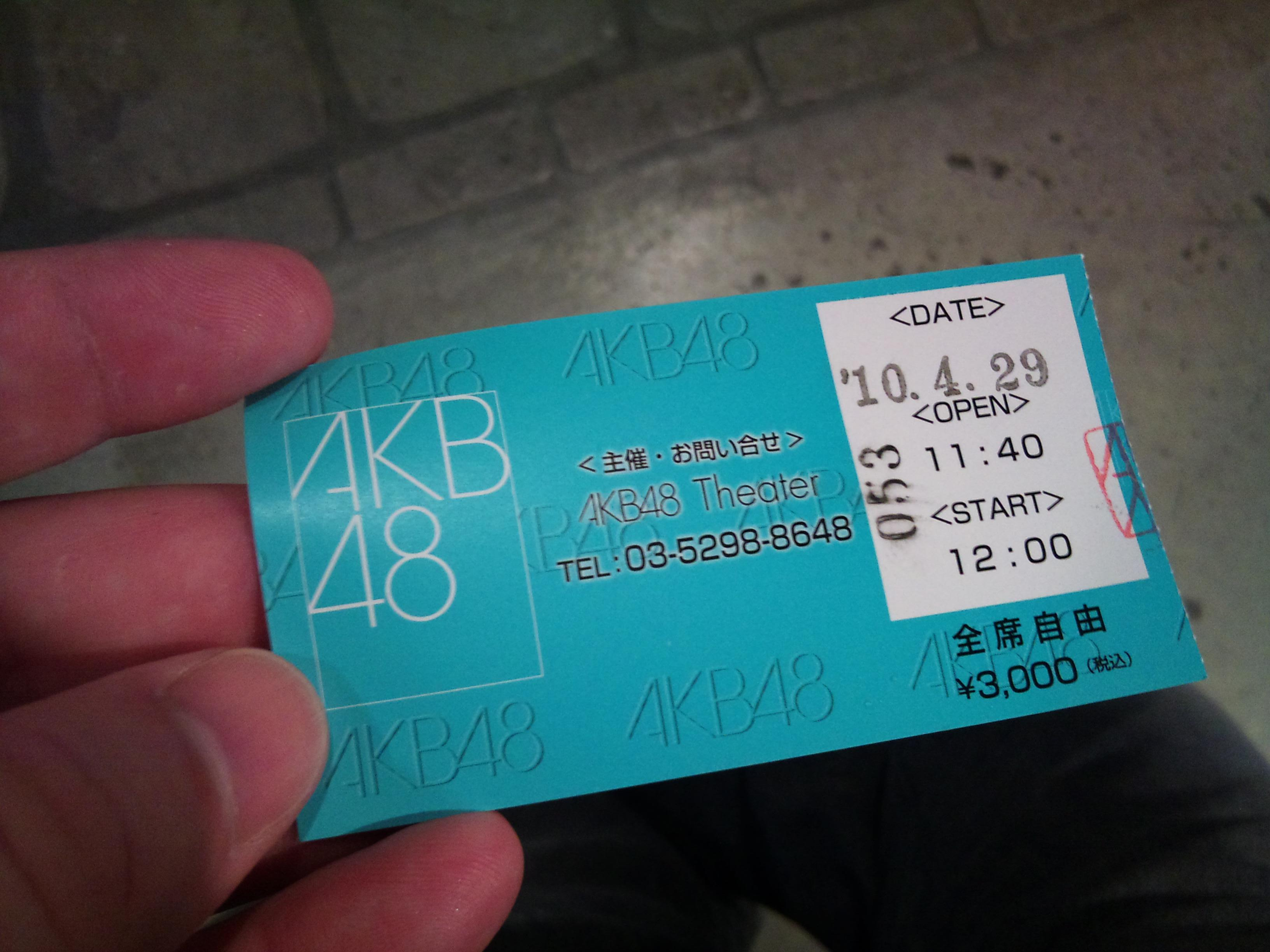 AKB48 Theater ticket.